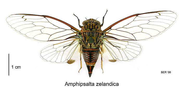 Dorsal view of Amphipsalta zelandica, photographed by Birgit E. Rhode, Landcare Research New Zealand Ltd.